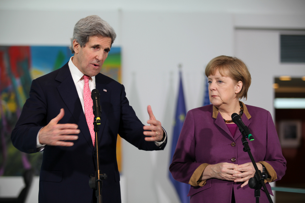 U.S. Secretary of State John Kerry and Angela address reporters after their bilateral meeting at the German Chancellery in Berlin, Germany, February 26, 2013. [State Department photo/ Public Domain]